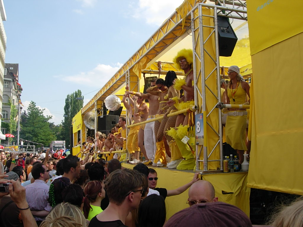 Zürich Street Parade 2004.